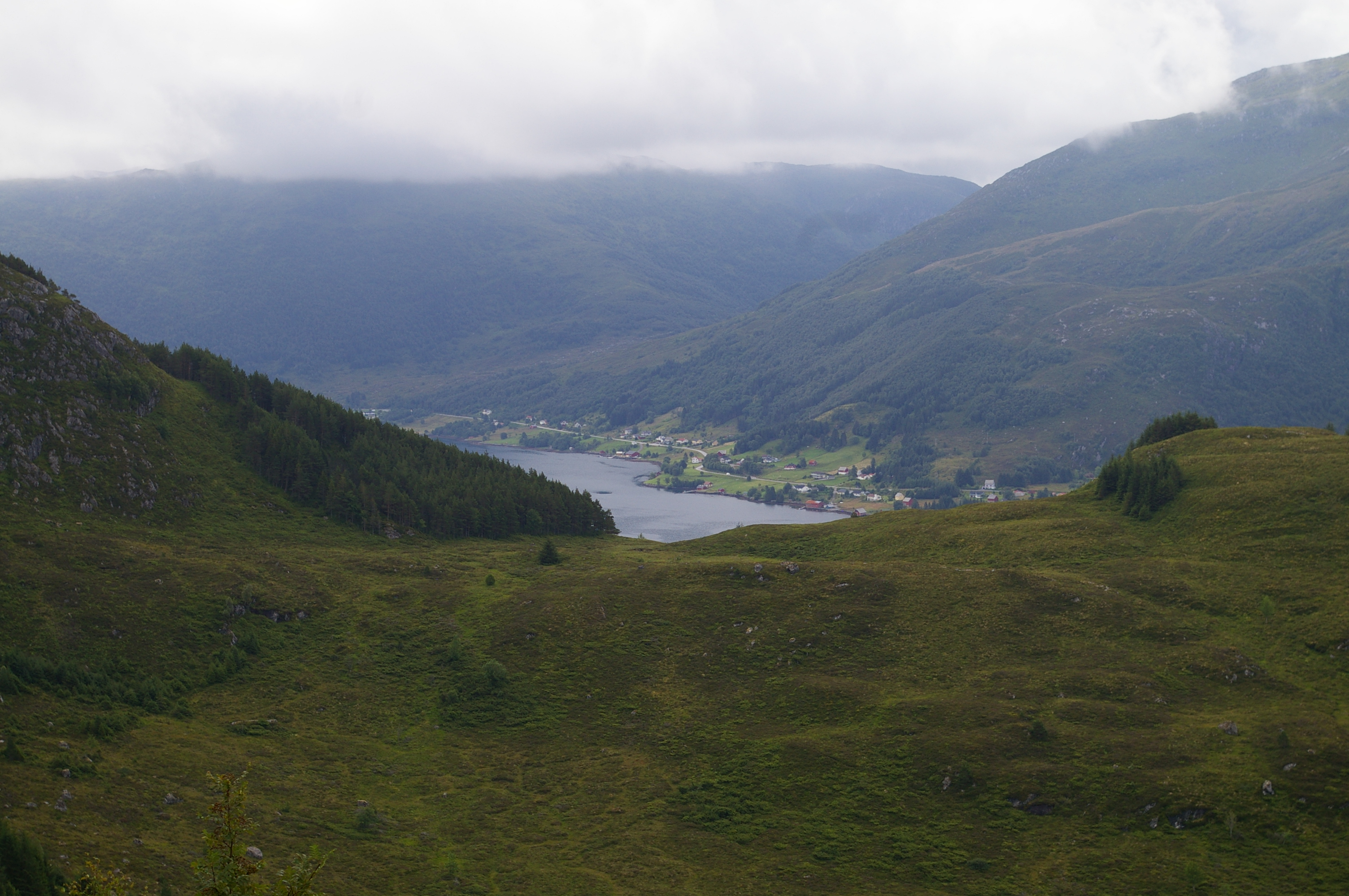 Moldefjorden in Selje, Sogn og Fjordane, Norway